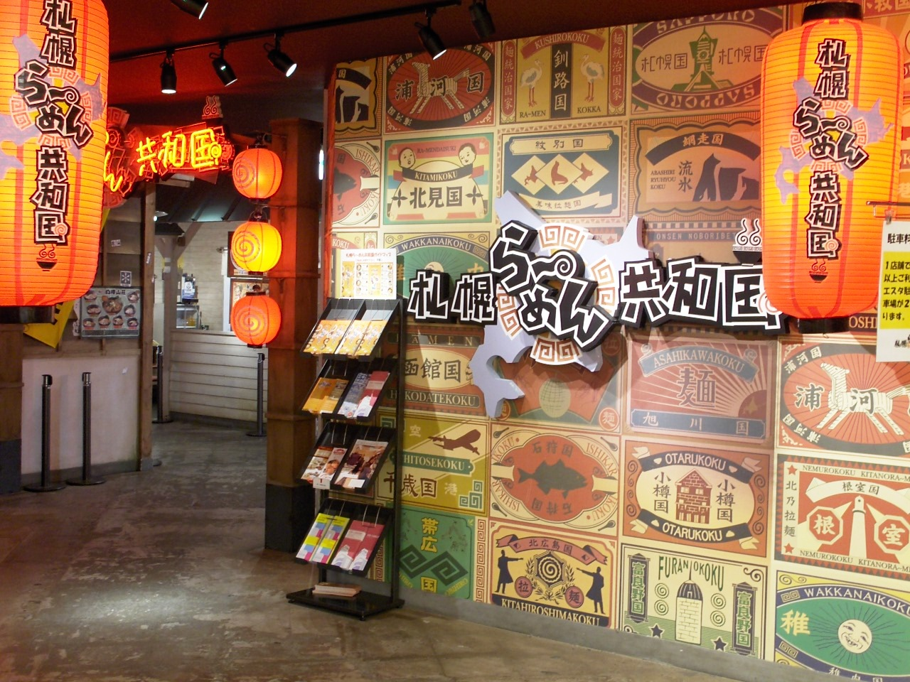 Entrance of Sapporo ramen kyowakoku, taken by original uploader on March 2007.